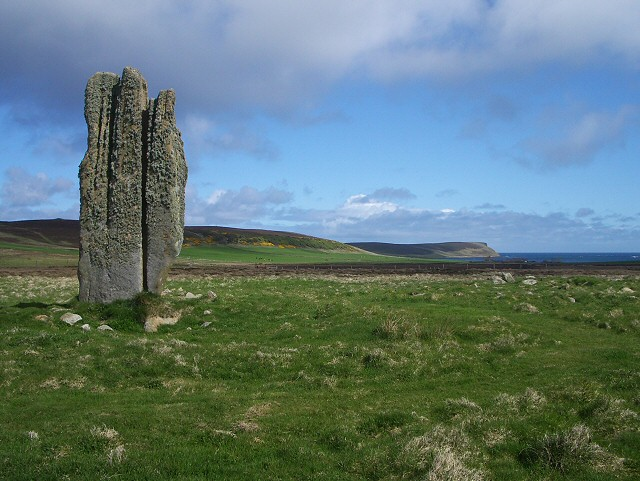 Stone of Setter, Eday. The stone of Setter is across the road from the hide at Mill Loch and is the starting point for a waymarked walk around Red Head, which can be seen in the distance.